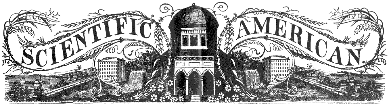 Scientific American 1845 masthead